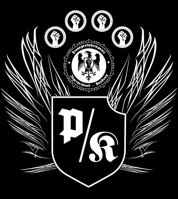 Symbol of the German Wehrmacht Propagandakompanie